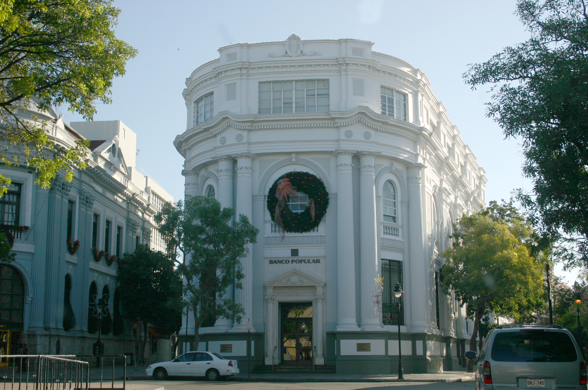 Banco de Ponce building — 1920s Neoclassical building, within the Ponce Historic Zone, in Ponce, Puerto Rico. On the National Register of Historic Places in Ponce, Puerto Rico. Credits Photo by: TVOrriola Dic 23, 2007 8:20 AM